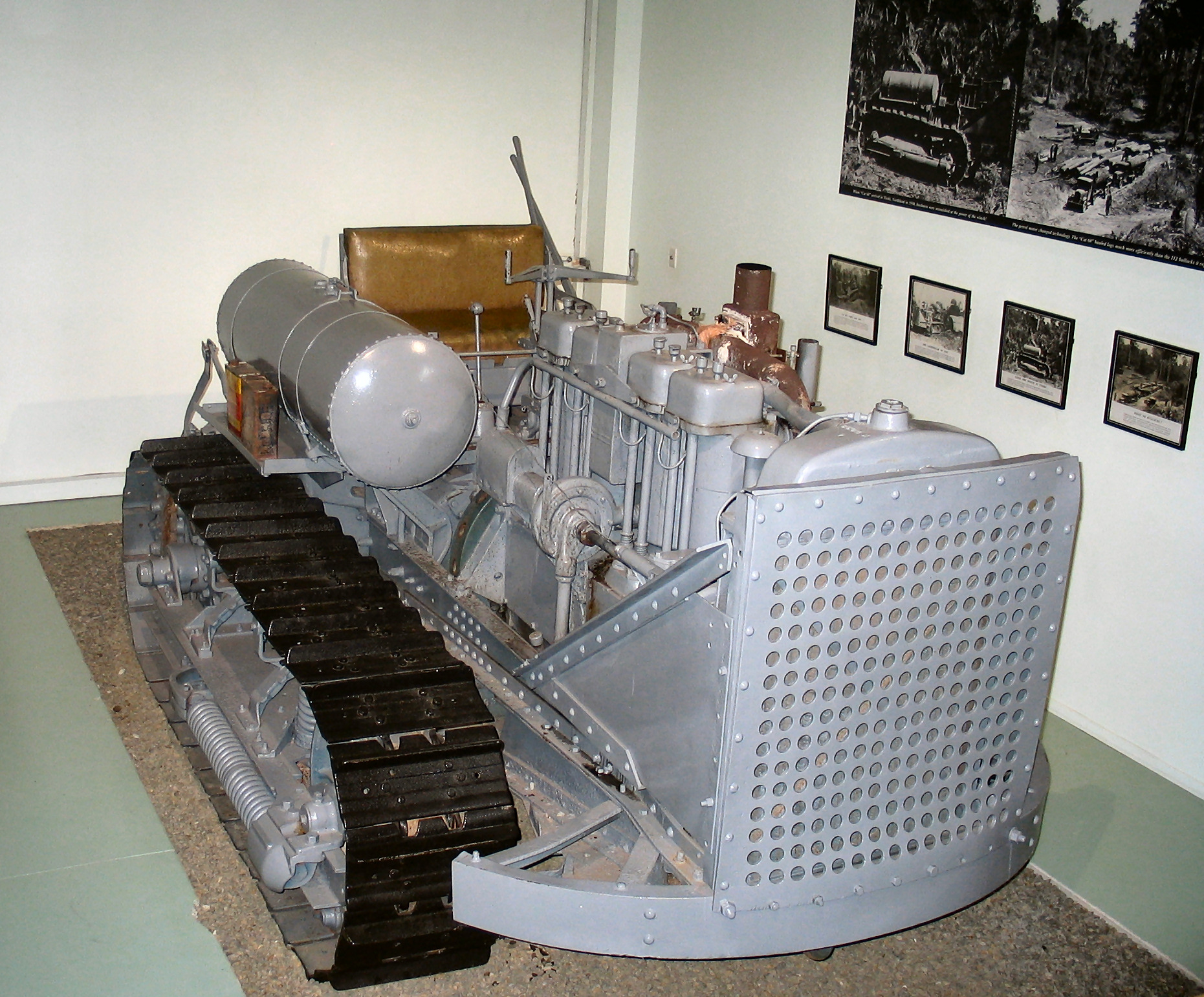 1929 Caterpillar Sixty on display in the Kauri Museum, Matakohe, Northland, New Zealand. This 60 horsepower crawler tractor, one of five imported into New Zealand in 1930 for hauling logs, replaced eight bullock teams (112 animals).